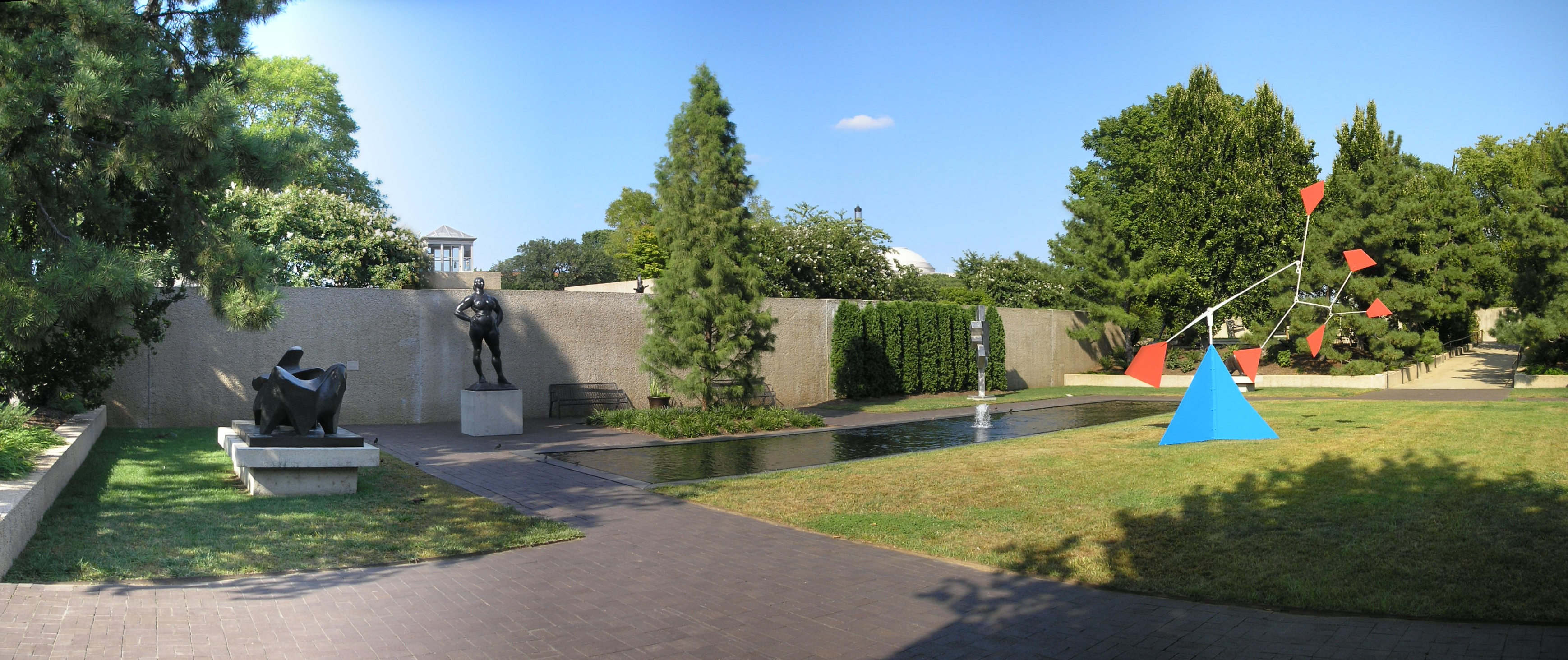 View of the sculpture garden at the Hirshhorn Museum in Washington, D.C..